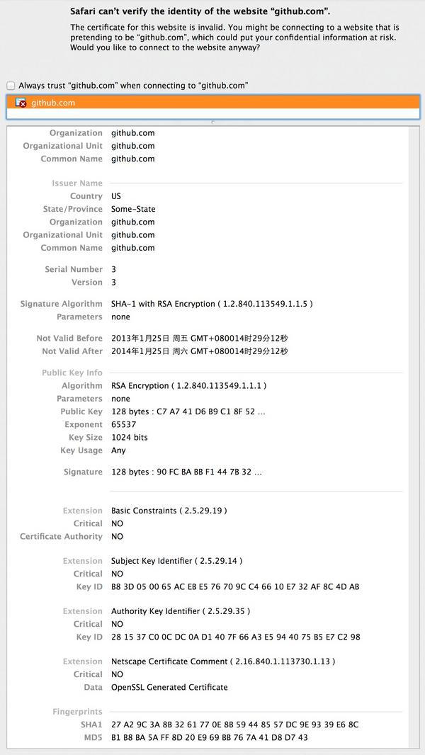 On January 26, 2013, GitHub users in China experienced a Man-in-the-middle attack. Because the SSL certificate was signed by an unknown authority, many browsers such as Safari showed users warnings.